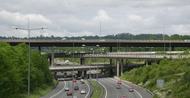 The huge multi-level junction of the M23 (top) and M25 (bottom) near Merstham, Surrey